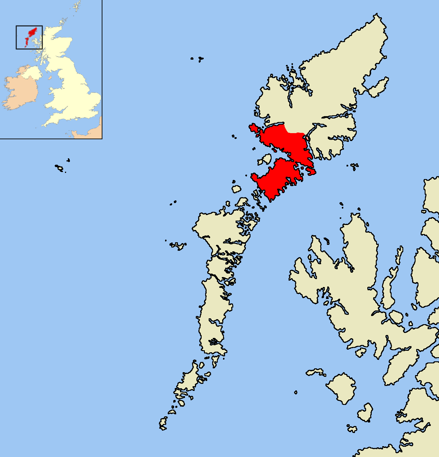 Harris, the southern part of the Lewis and Harris island in the Outer Hebrides, Scotland.